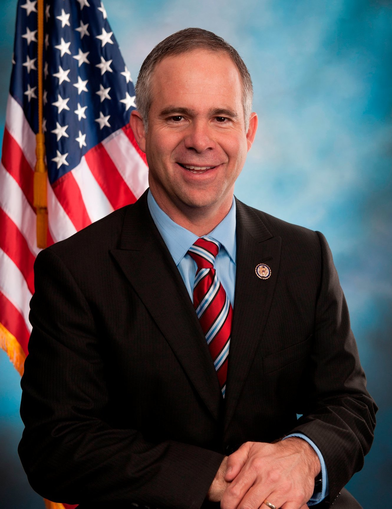 Tim Huelskamp, member of the United States House of Representatives from Kansas.